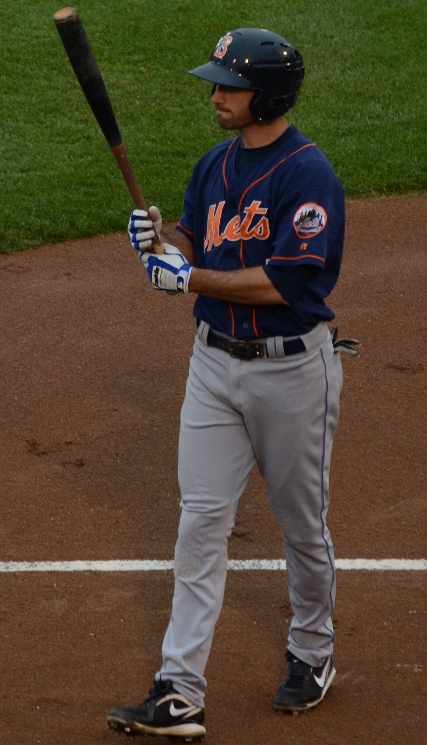 Josh Satin on June 11, 2011